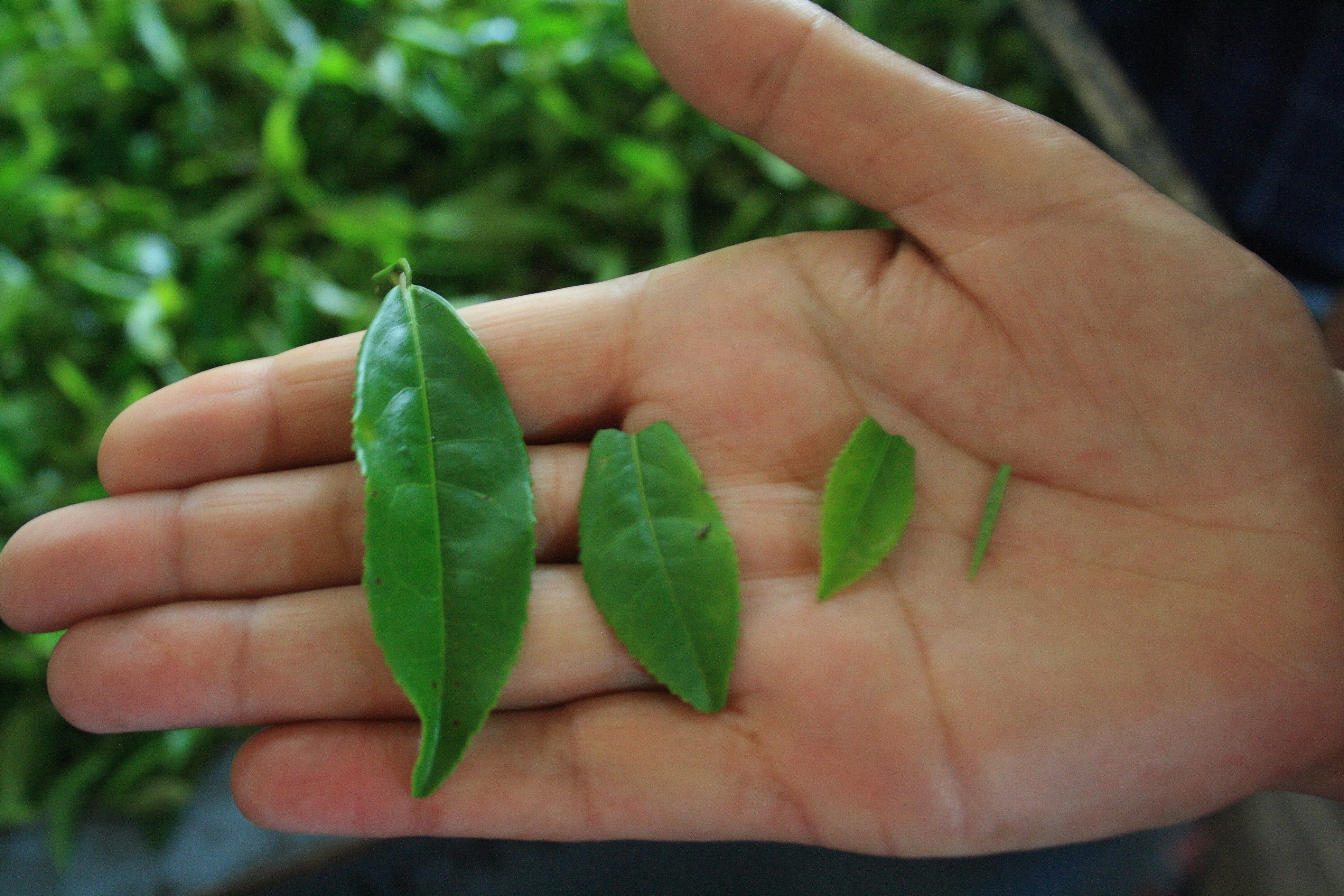 Fresh, still undried tea leaves of different qualities in a hand. Taken at the Happy Valley Tea Estate at Darjeeling, India.